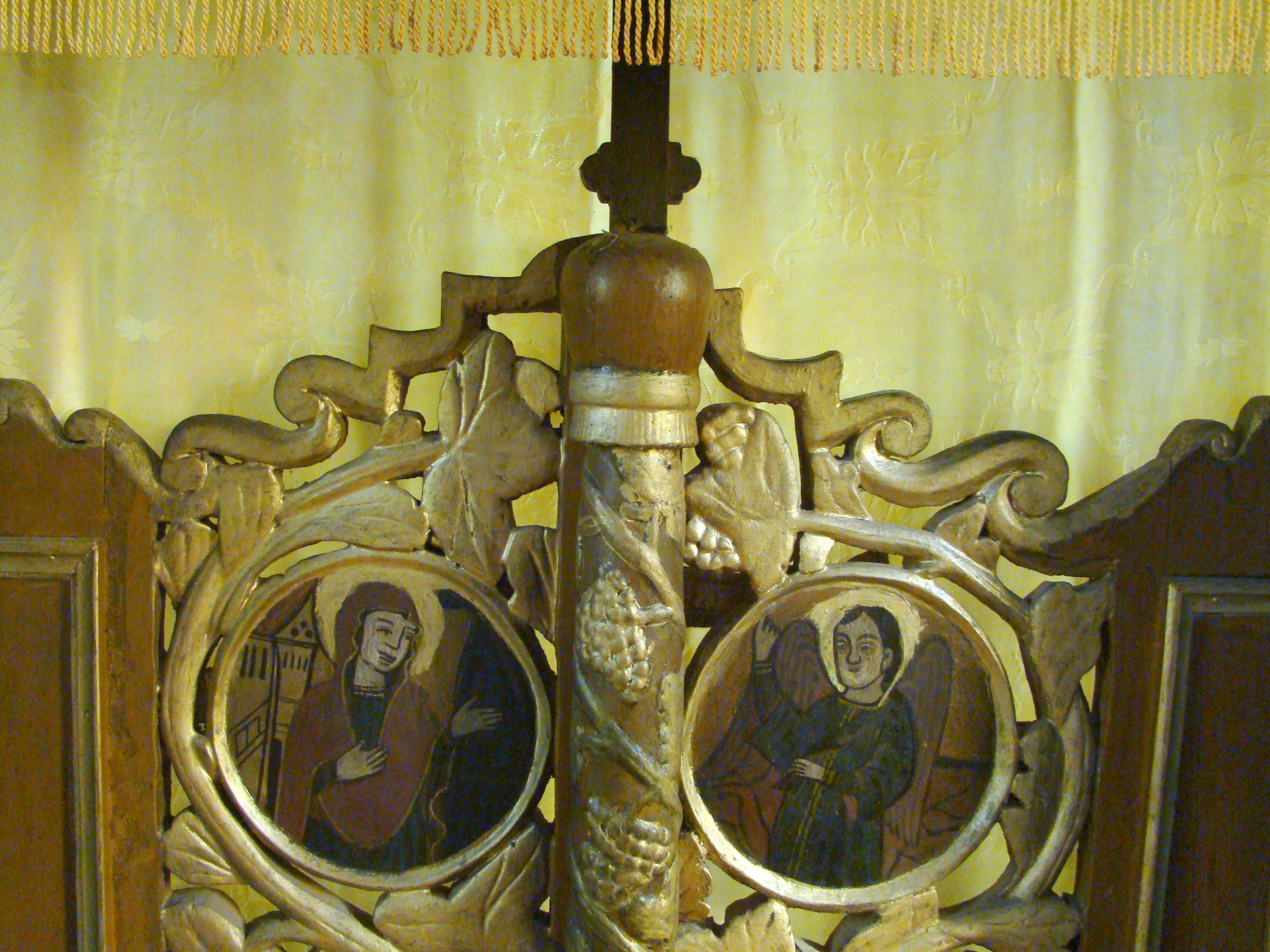 Wooden church in Vermeș, Bistrița-Năsăud county, Romania